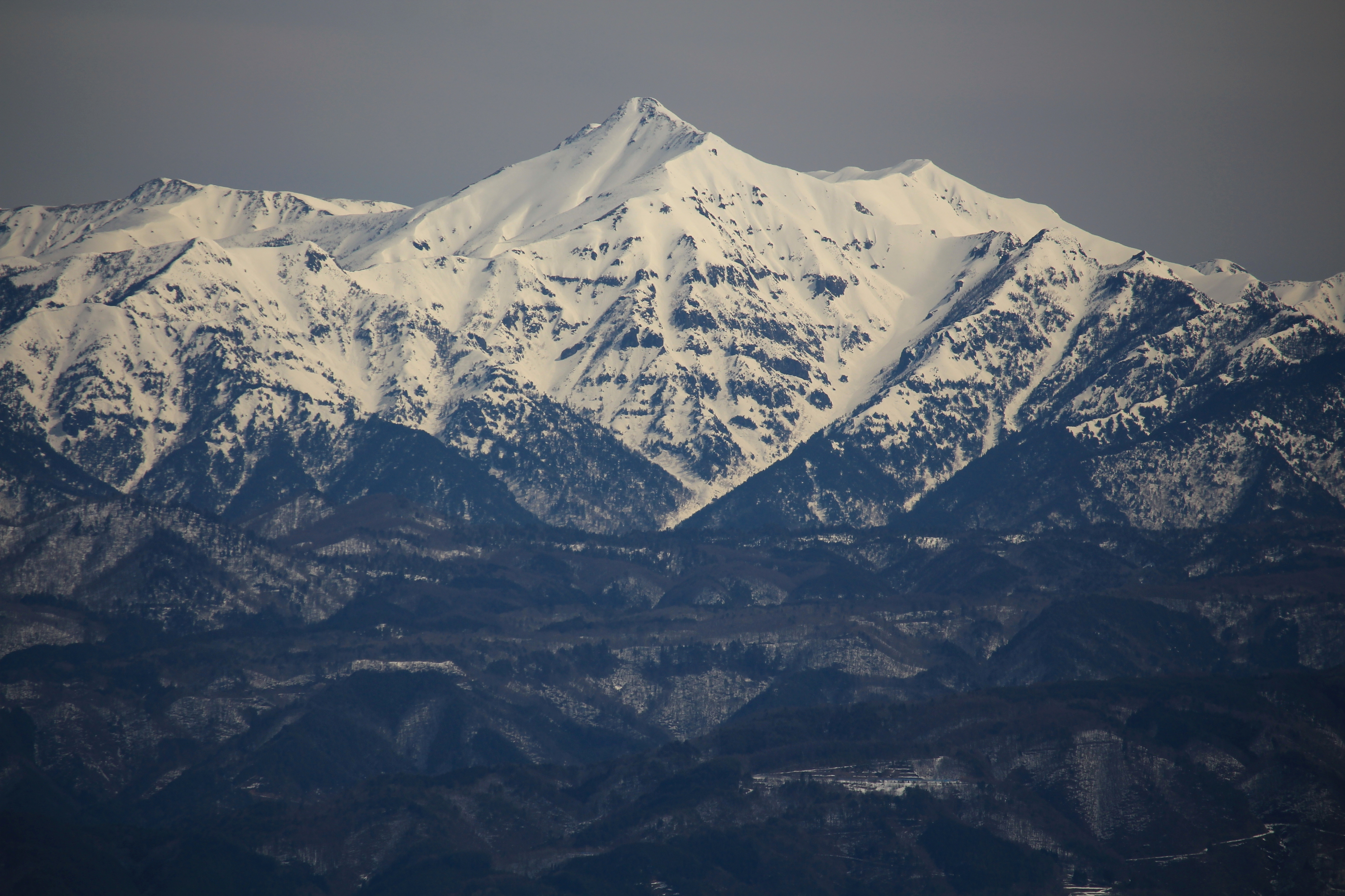 Mount Kasa seen from Mount Funa in Takayama, Gifu prefecture, Japan.